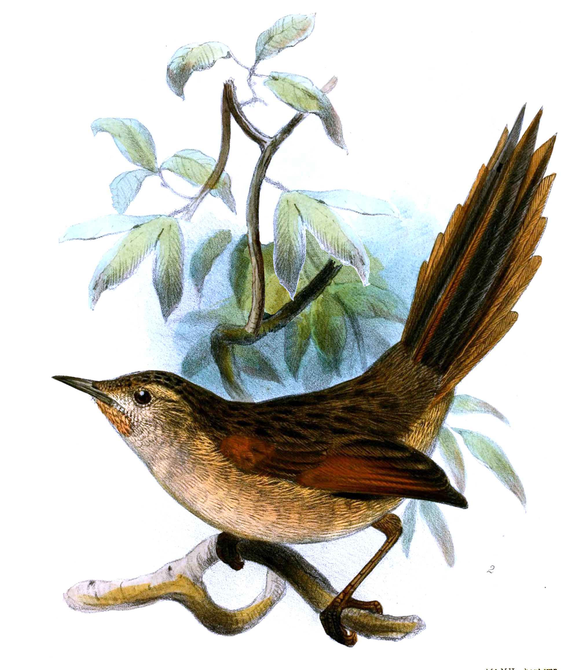 Synallaxis graminicola = Asthenes wyatti